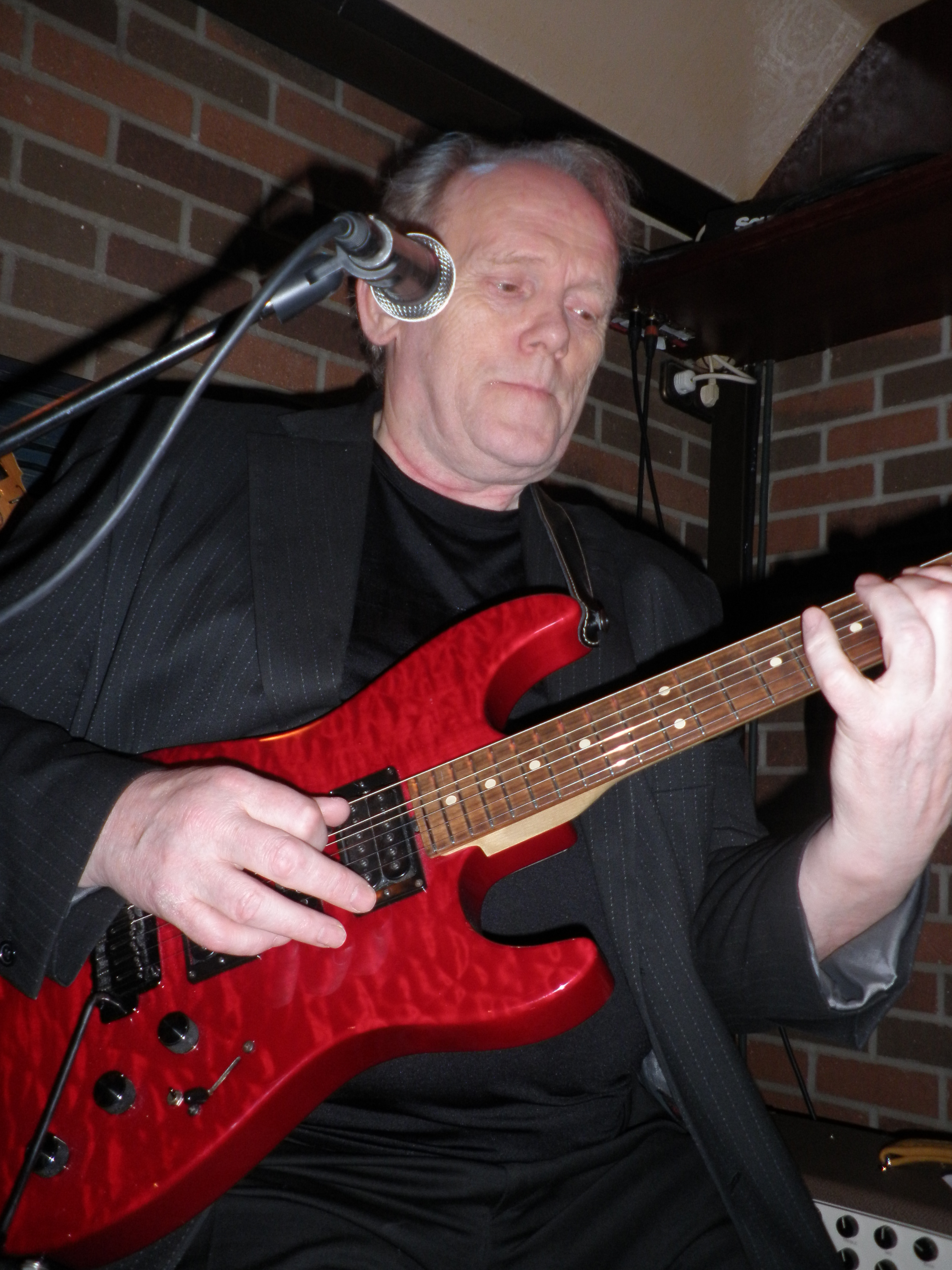 Photo: Gunnar Thordarson